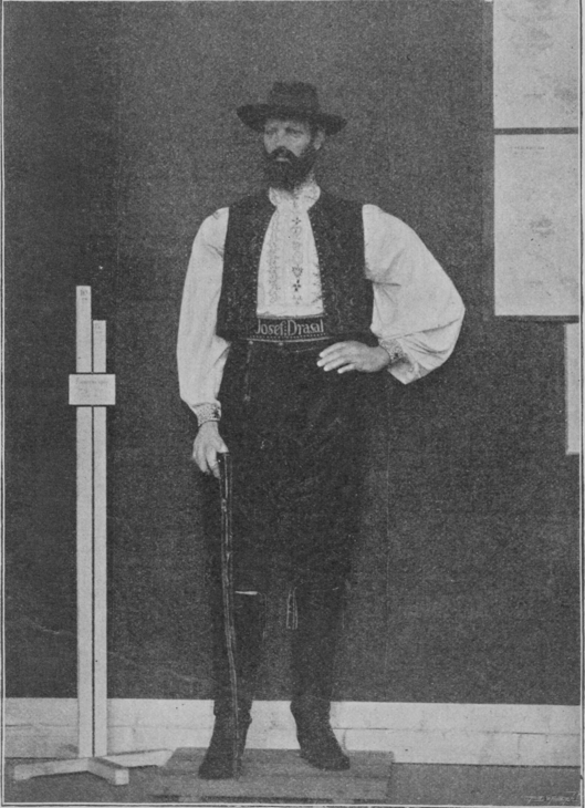 Model of Mr. Josef Drásal, the tallest Czech in history (approx. 244 cm), displayed on Czech & Slavonic Ethnographic Exhibition in Prague in 1895. The white rods on the side indicate the average height of a person at that time.